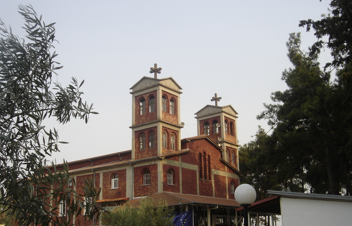 St. Panteleimon Church, at Alonia, Pieria.